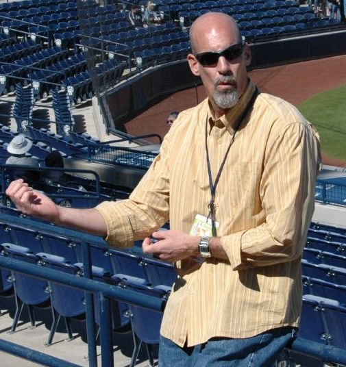 Bavasi talking about Mark Lowe's elbow surgery and why not to expect Lowe to be back before the end of the season.